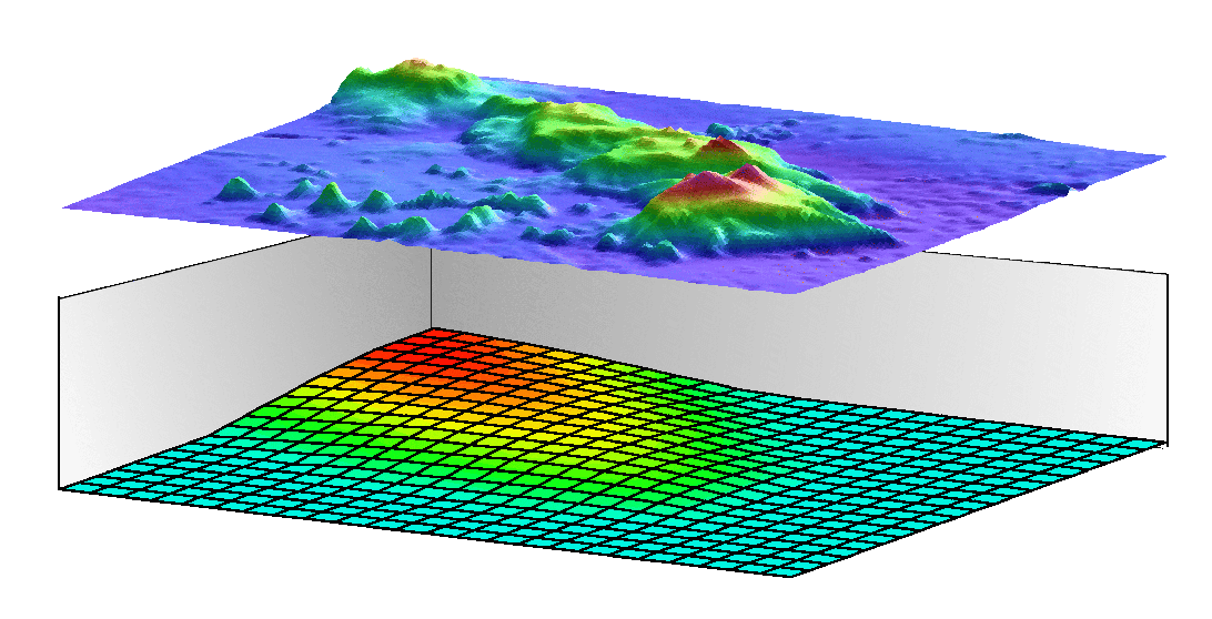 Schematic sketch of the lithosphere-asthenosphere boundary beneath the Hawaiian islands illustrating the progressive thinning of the lithosphere with island age caused by thermal impact of the mantle plume.